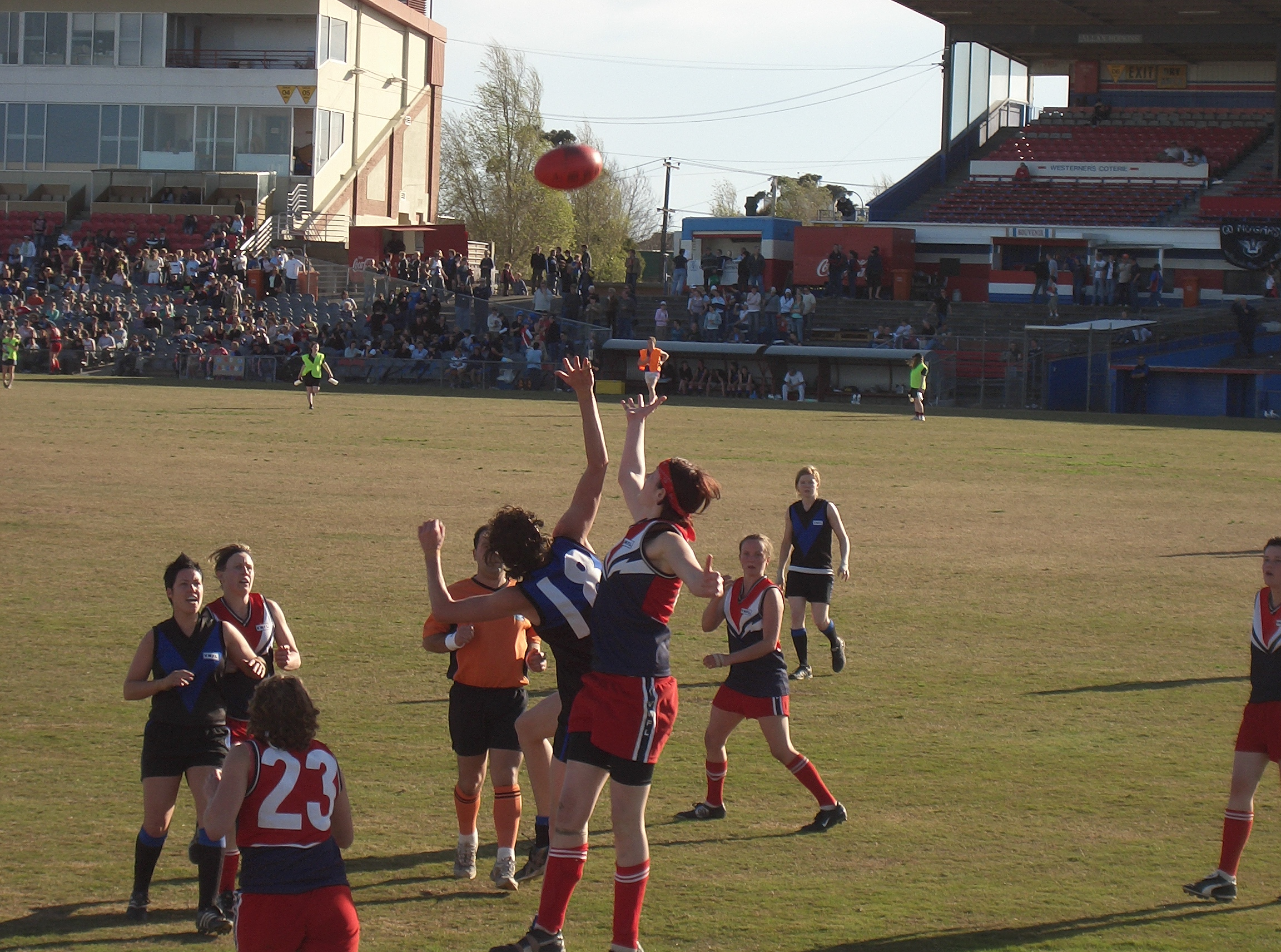 The rucks reach for the ball after the umpire (in orange) has balled it up. Taken at the Grand Final of the Victorian Women's Football League, Division 1. Melbourne University MUGARS (black and blue) def. Darebin Falcons.